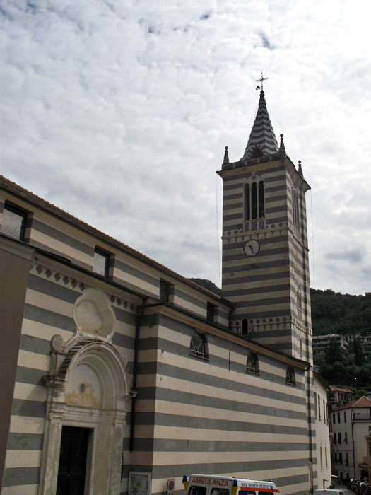 The church of San giorgio in Moneglia